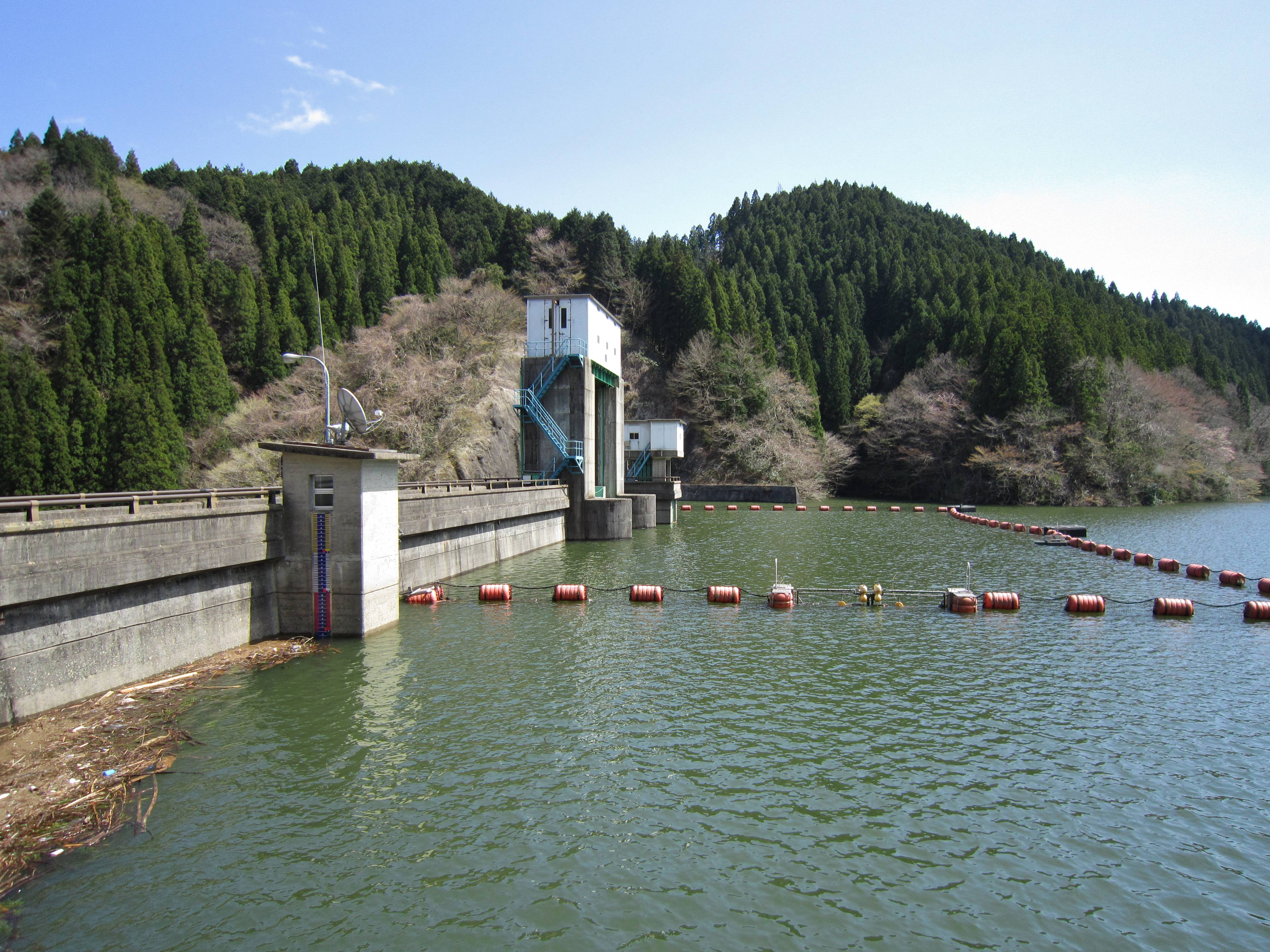 Mizunuma Dam.